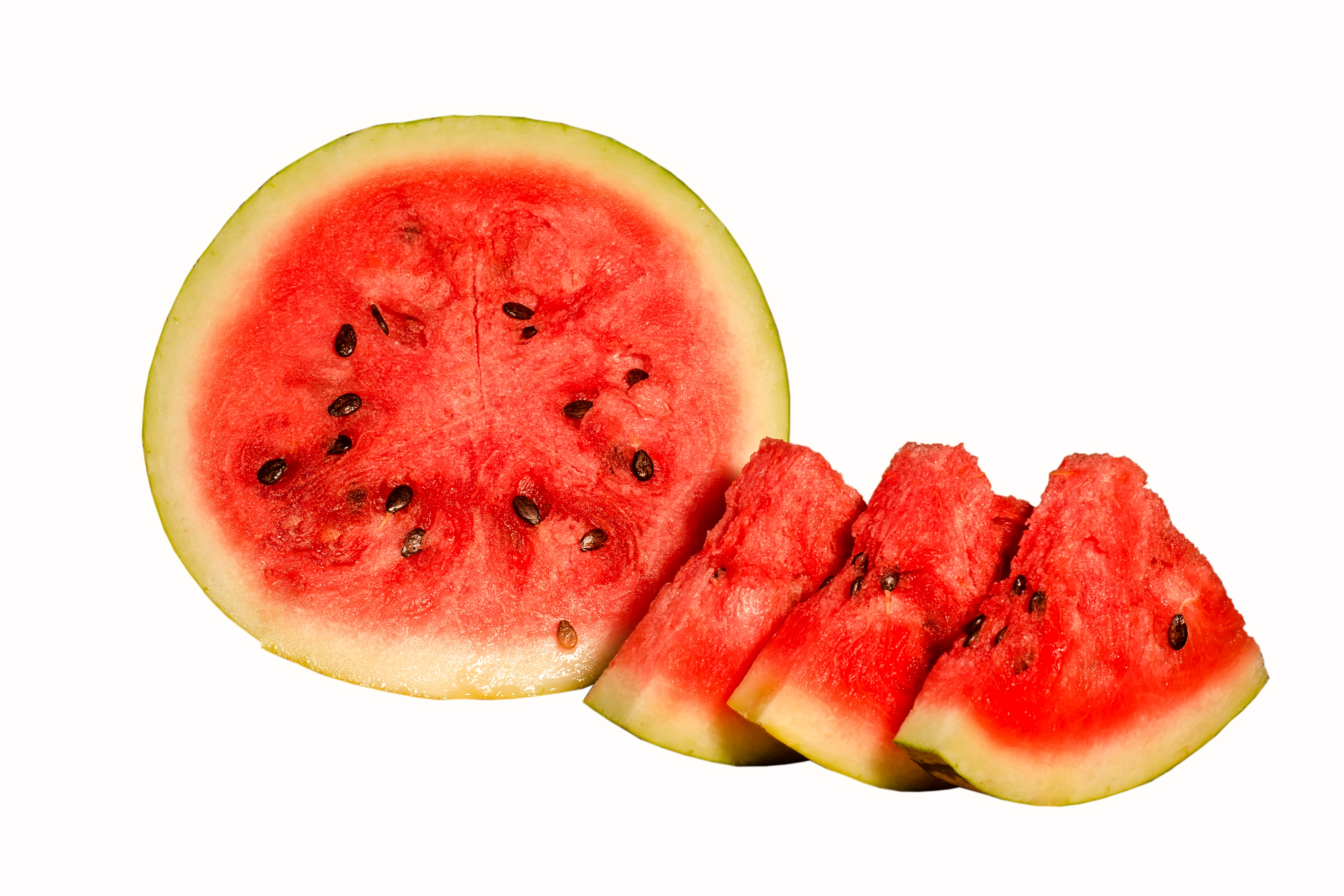 Watermelon cross